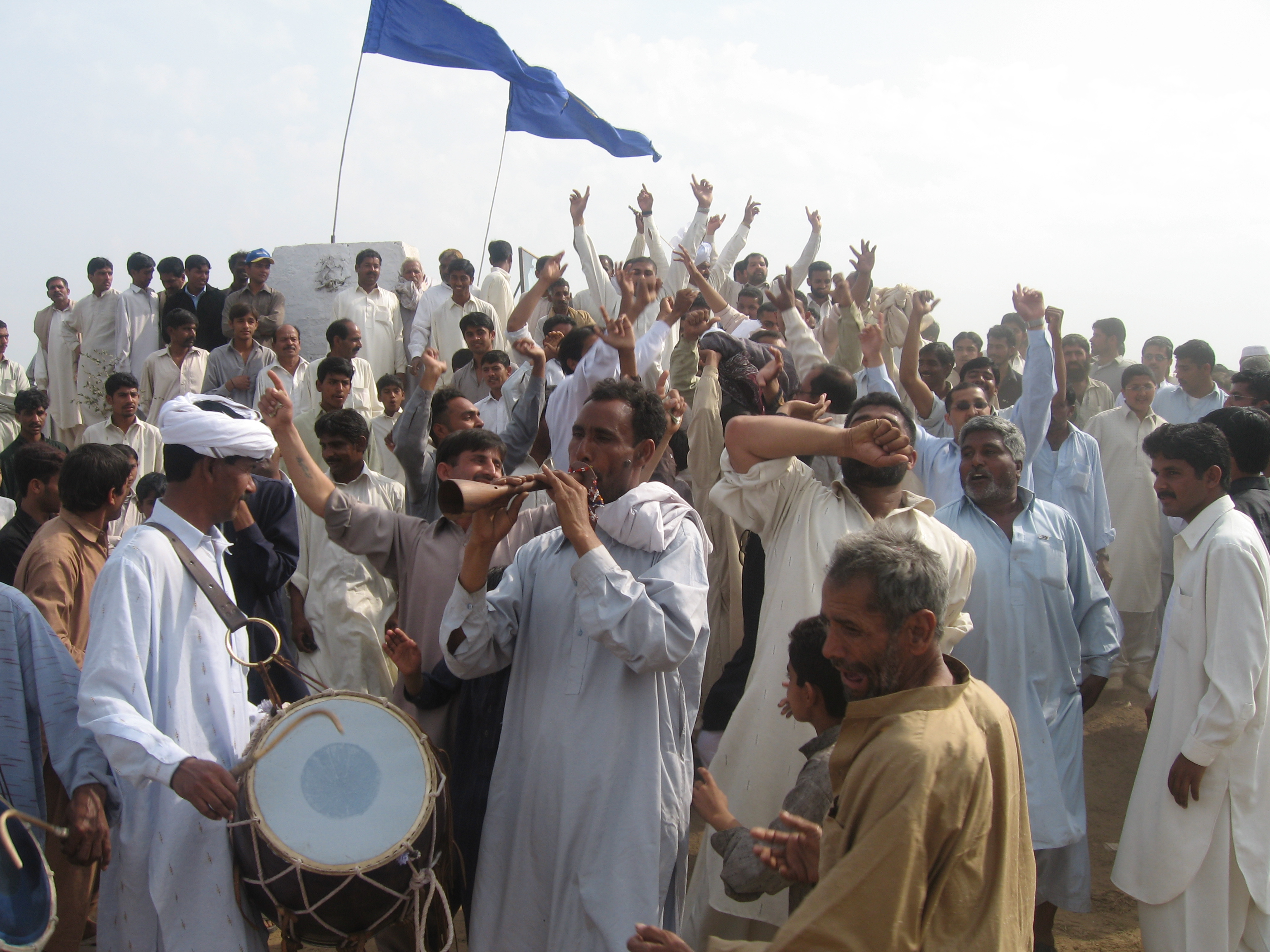 The Winners of the 2007 Bull race or Kaara at Kantrili